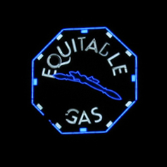 Clock This work is licensed under a Creative Commons Attribution 3.0 United States License.